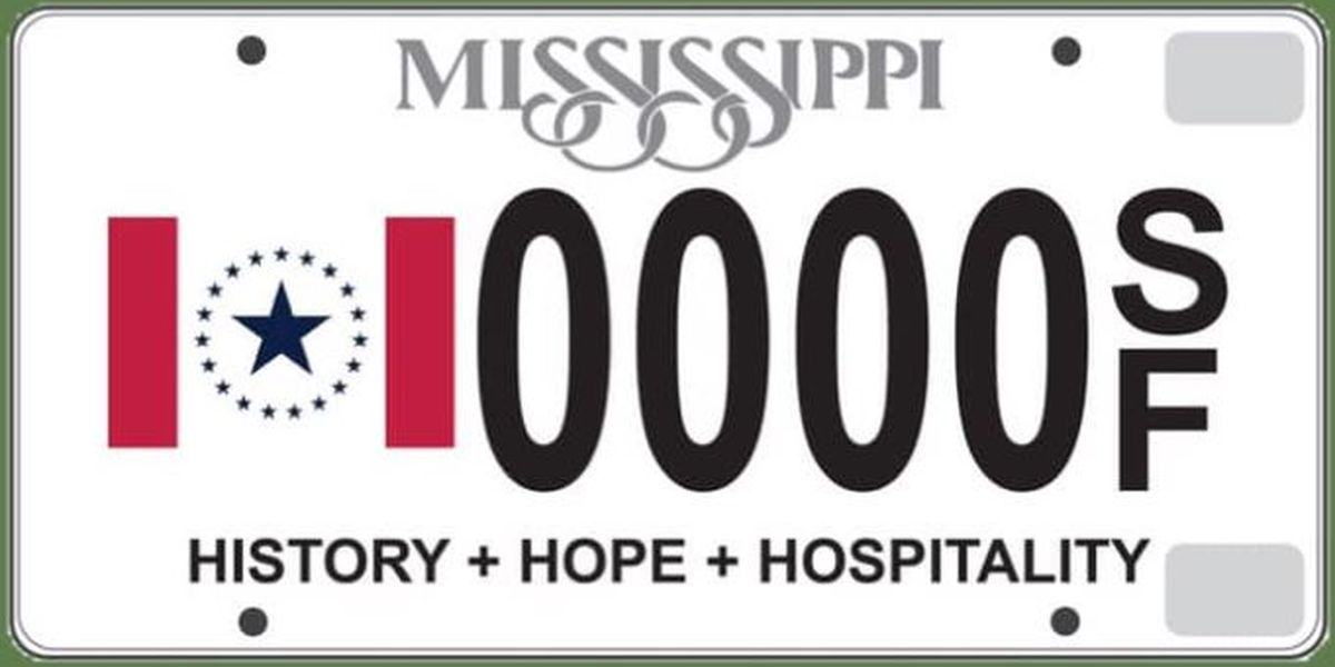 Mississippi specialty license plate including the Stennis Flag design.